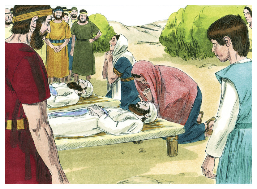 Biblical illustration of First Book of Samuel Chapter 4